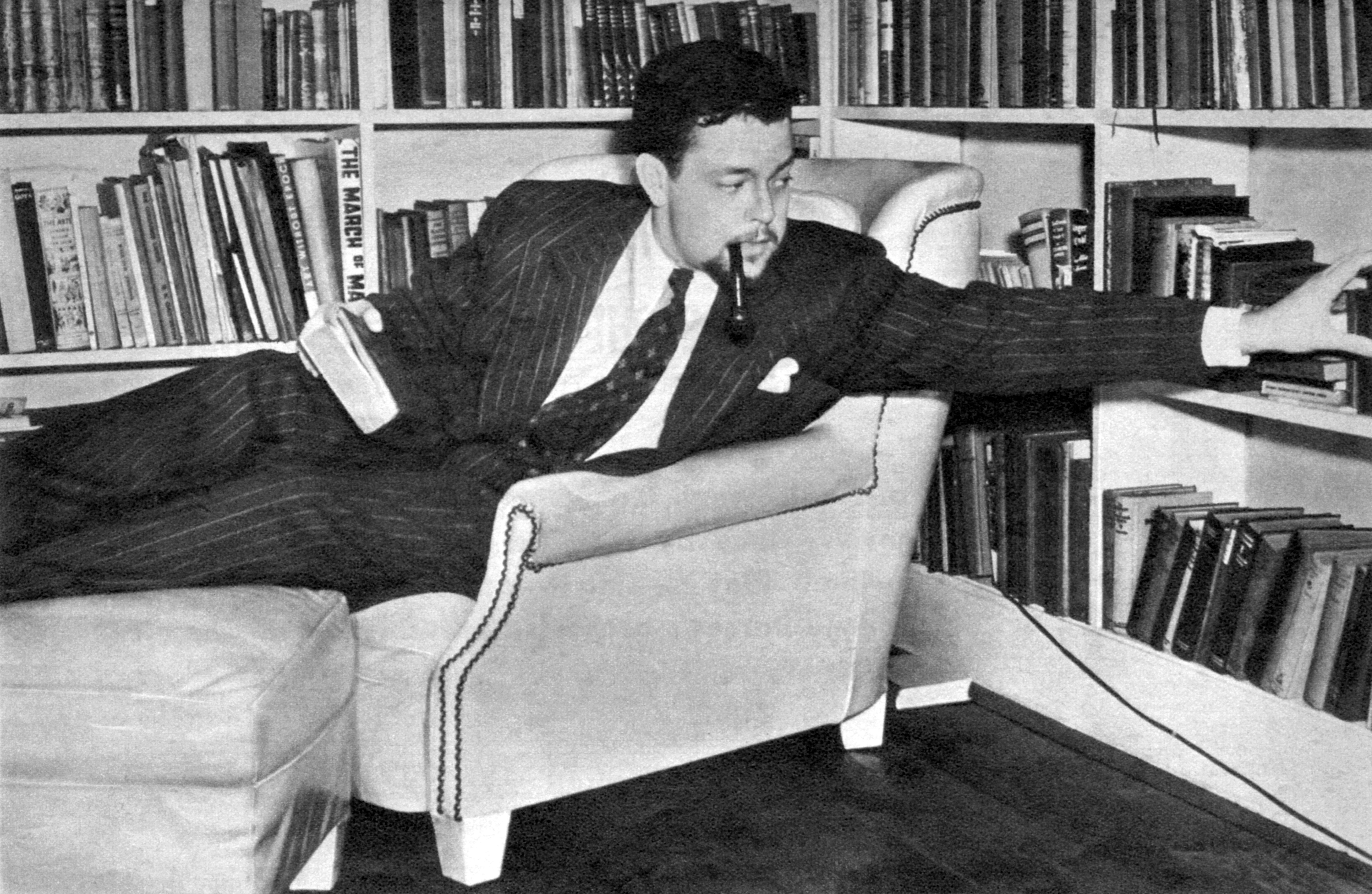 Photograph of Orson Welles at work in his Hollywood home This is the lead photo in a three-part biographical profile, "Fate's Bad Boy", by Lucille Fletcher.